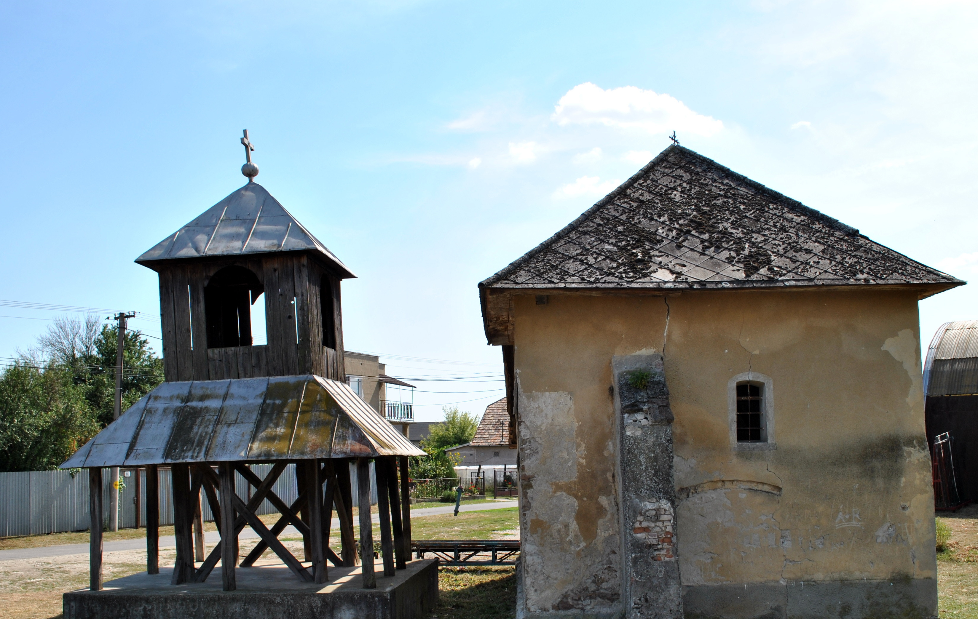 Veľké Turovce presbyterium